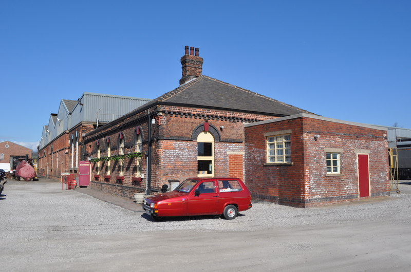 Barrow Hill Roundhouse, near to Brimington, Derbyshire, Great Britain. The office (now shop) with a red Robin Reliant 3 wheeler.